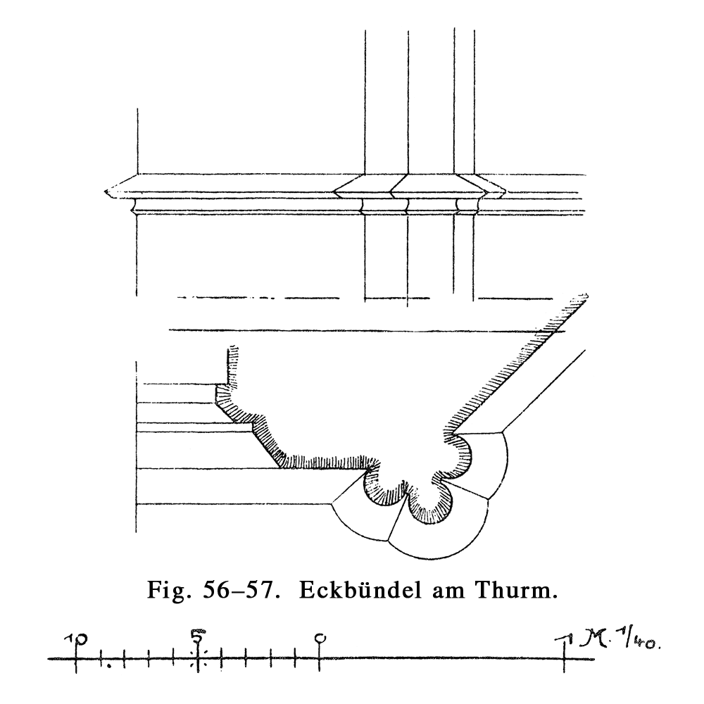 Frankfurt on the Main: Old Saint Nicholas Church, corner pillar of the tower